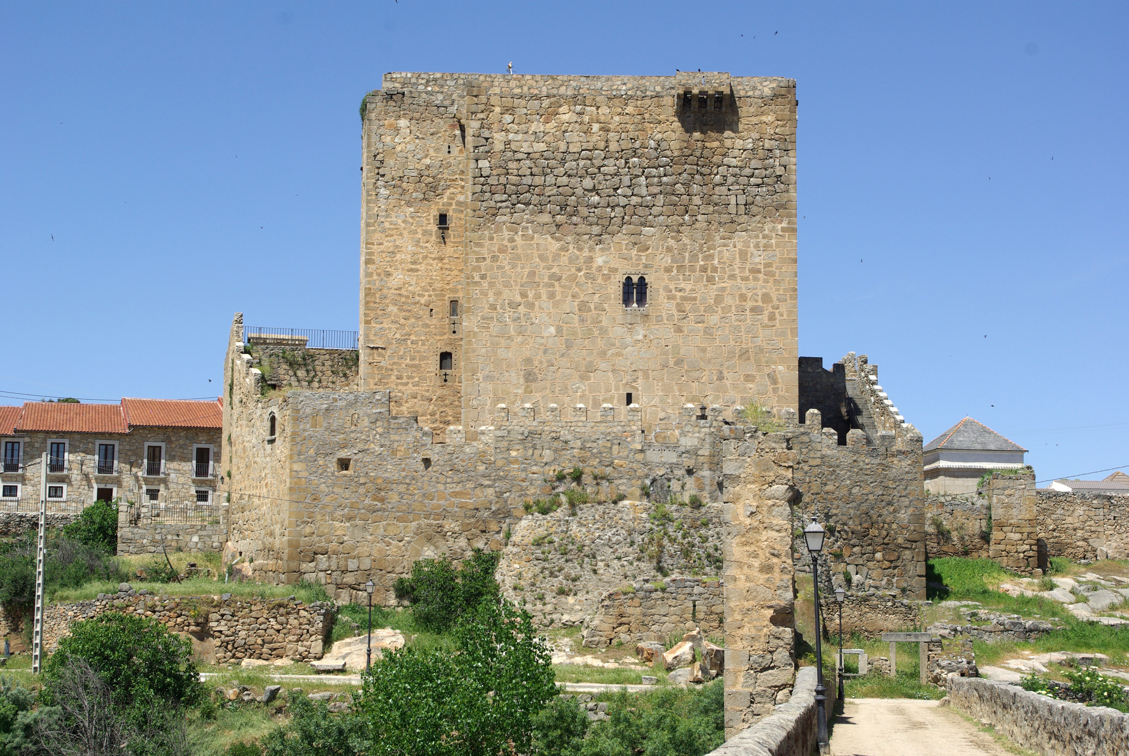 Dávila castle in Puente del Congosto (Salamanca, Spain)